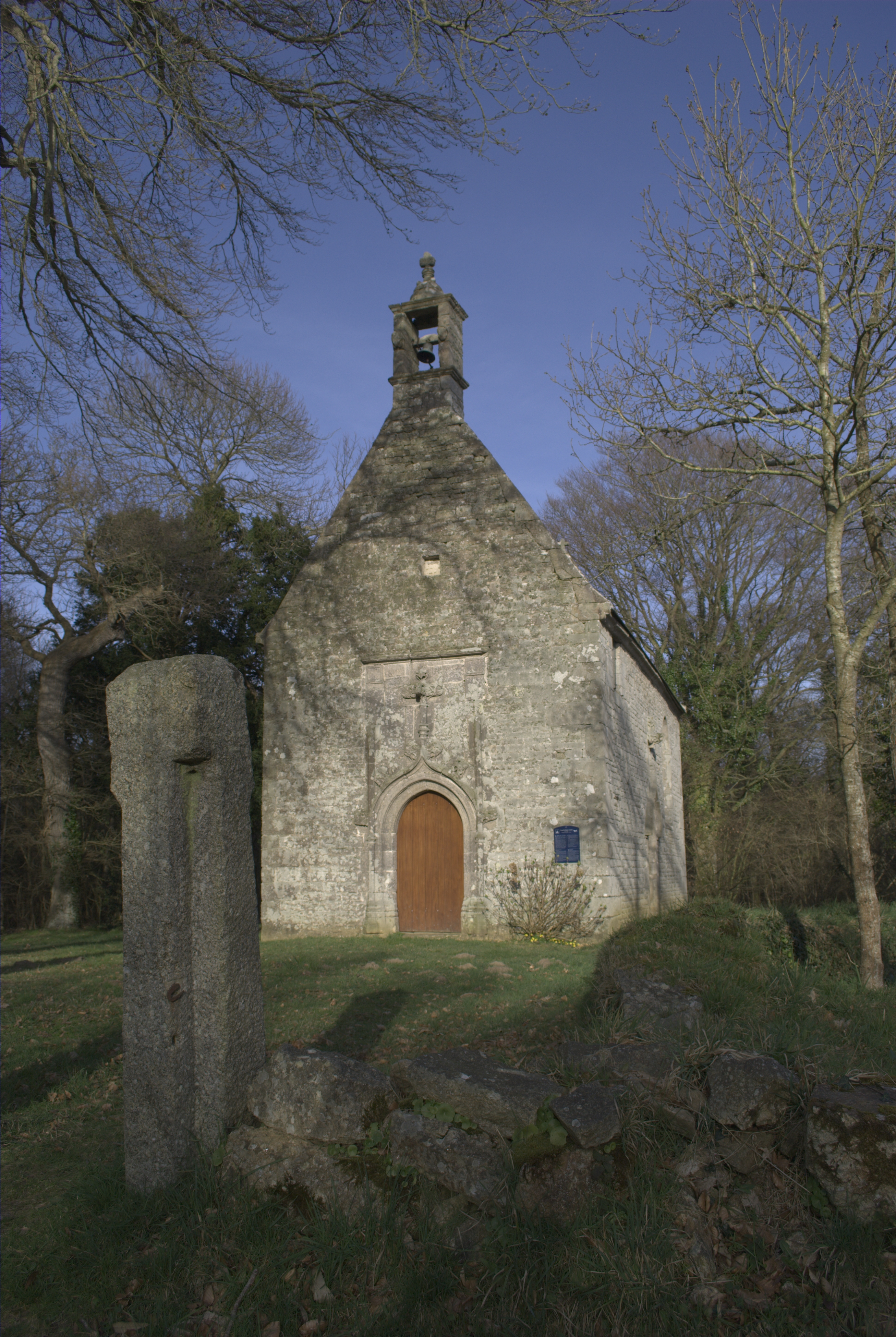 Chapel of Saint-Antoine in the village of Plouisy(France).